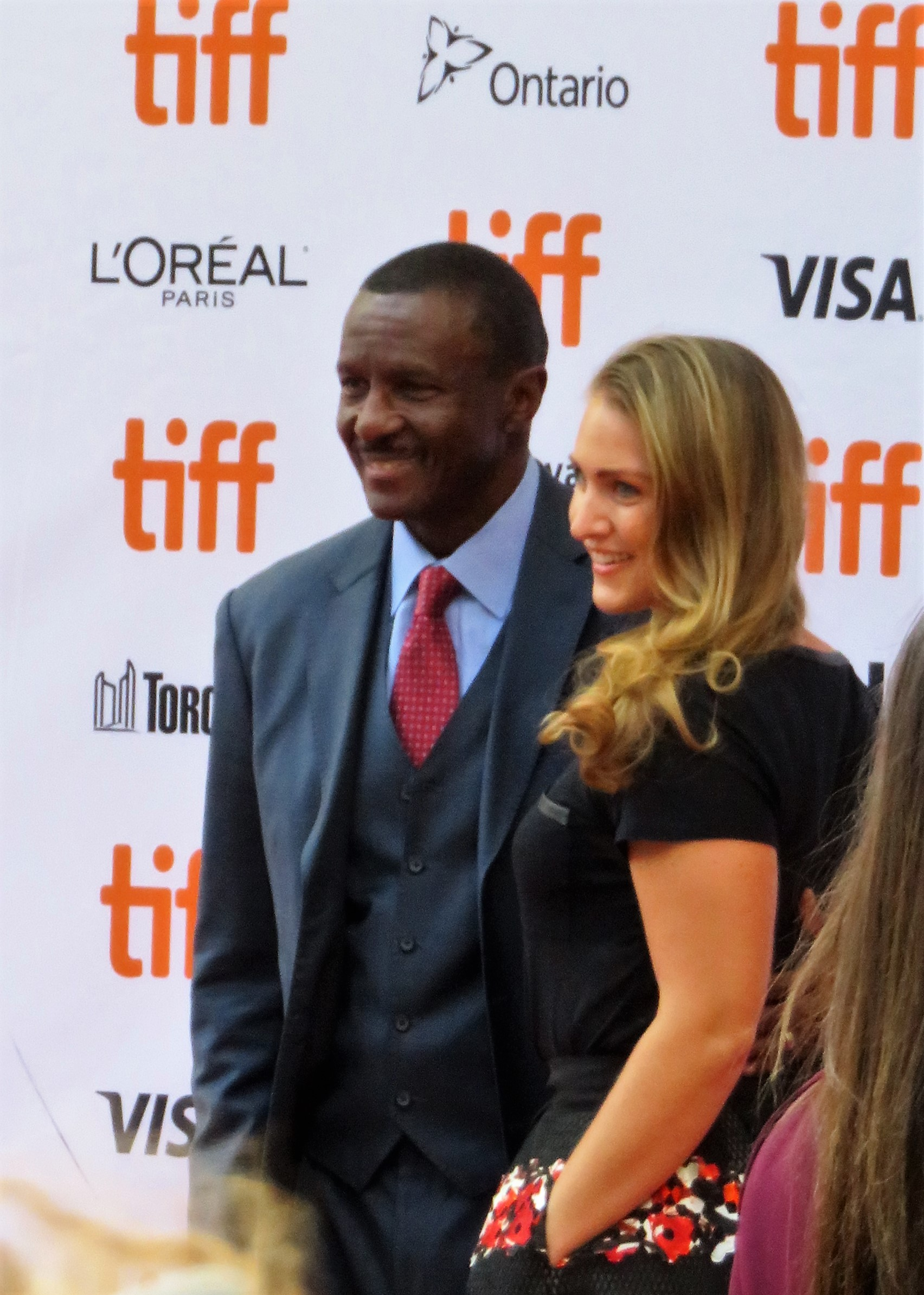 Toronto Raptors coach Dwane Casey and wife Brenda Casey at the premiere of The Carter Effect, 2017 Toronto Film Festival